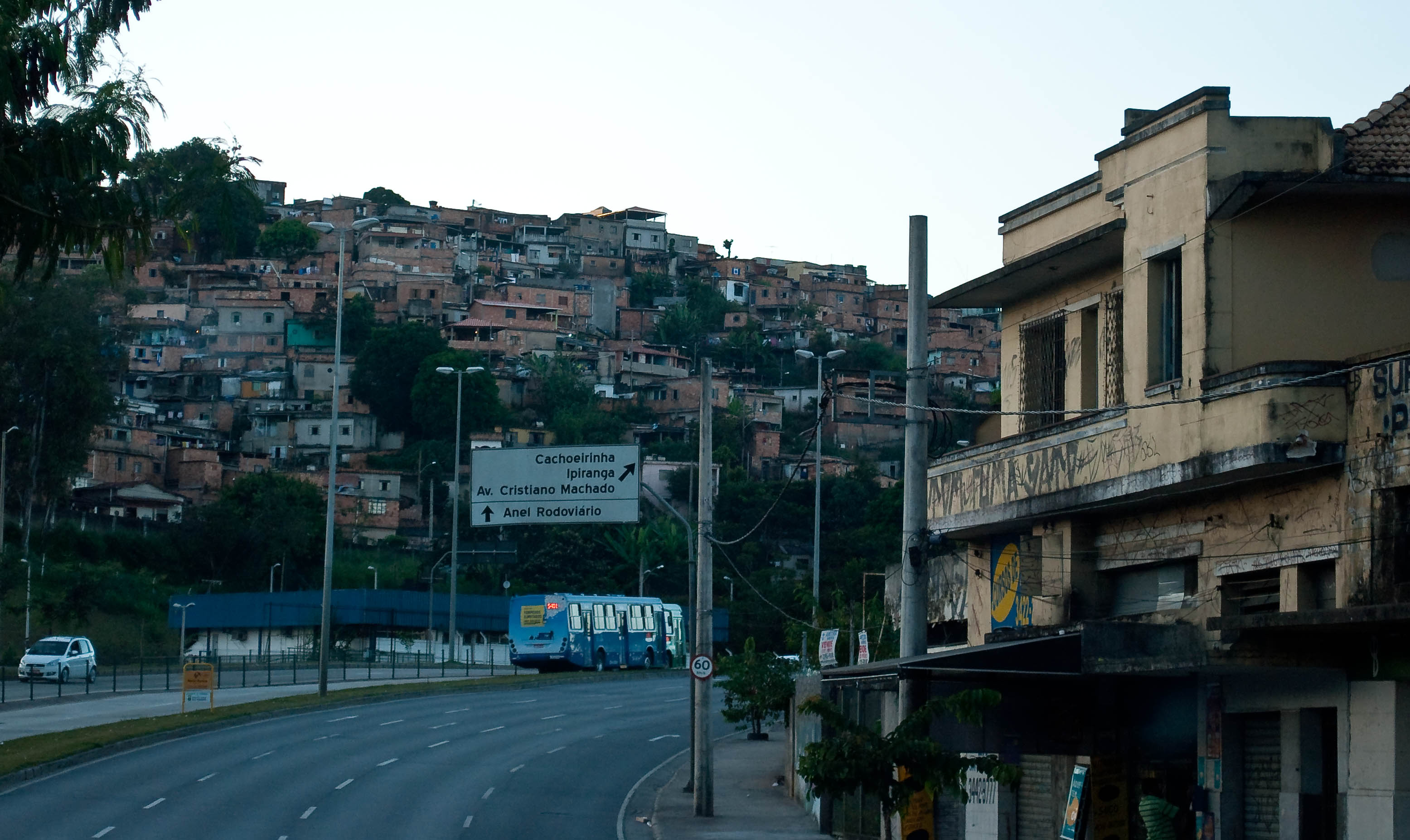 Slums around of the Presidente Antônio Carlos Avenue, in Belo Horizonte, Minas Gerais, Brazil.